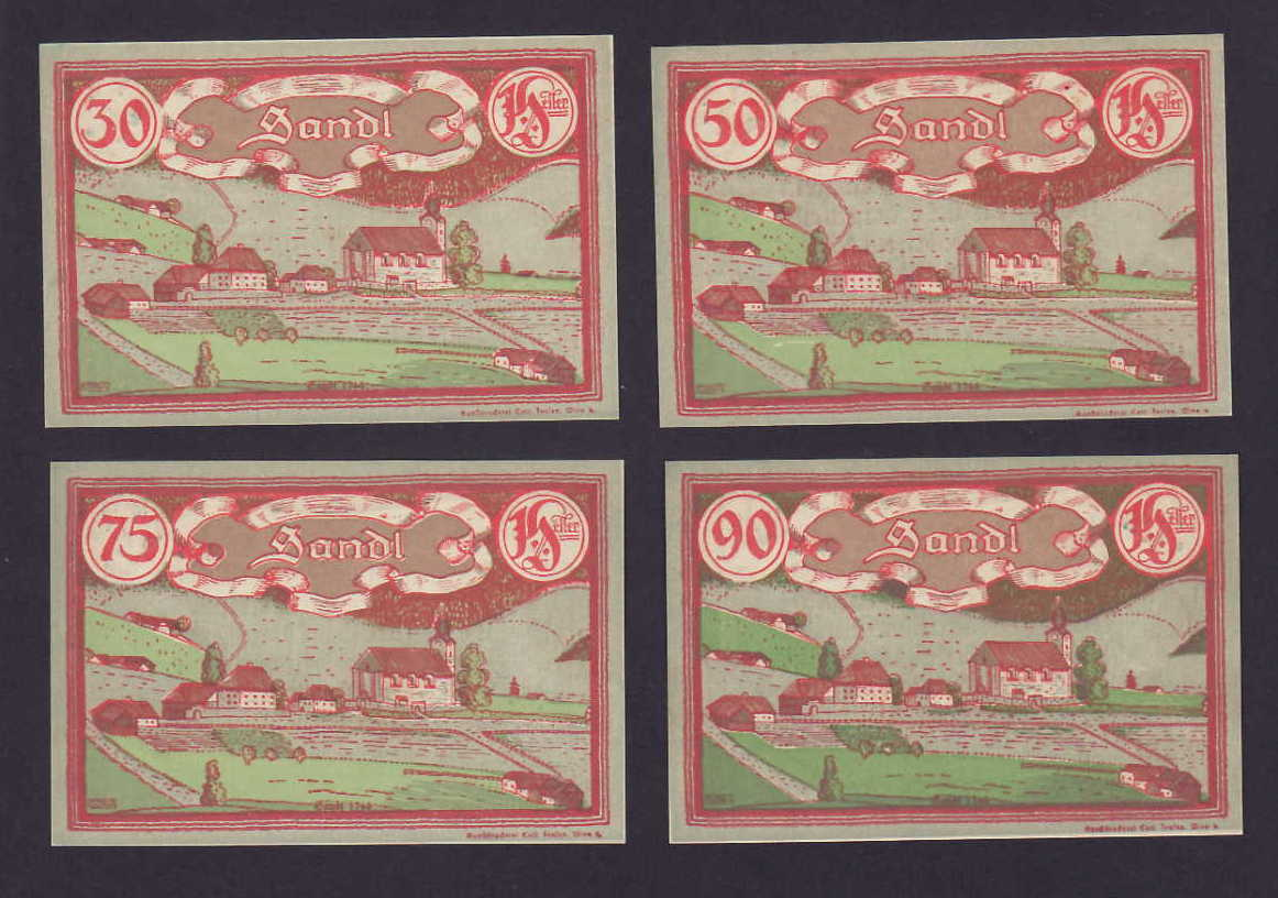 Collector's Notgeld printed in 1920.